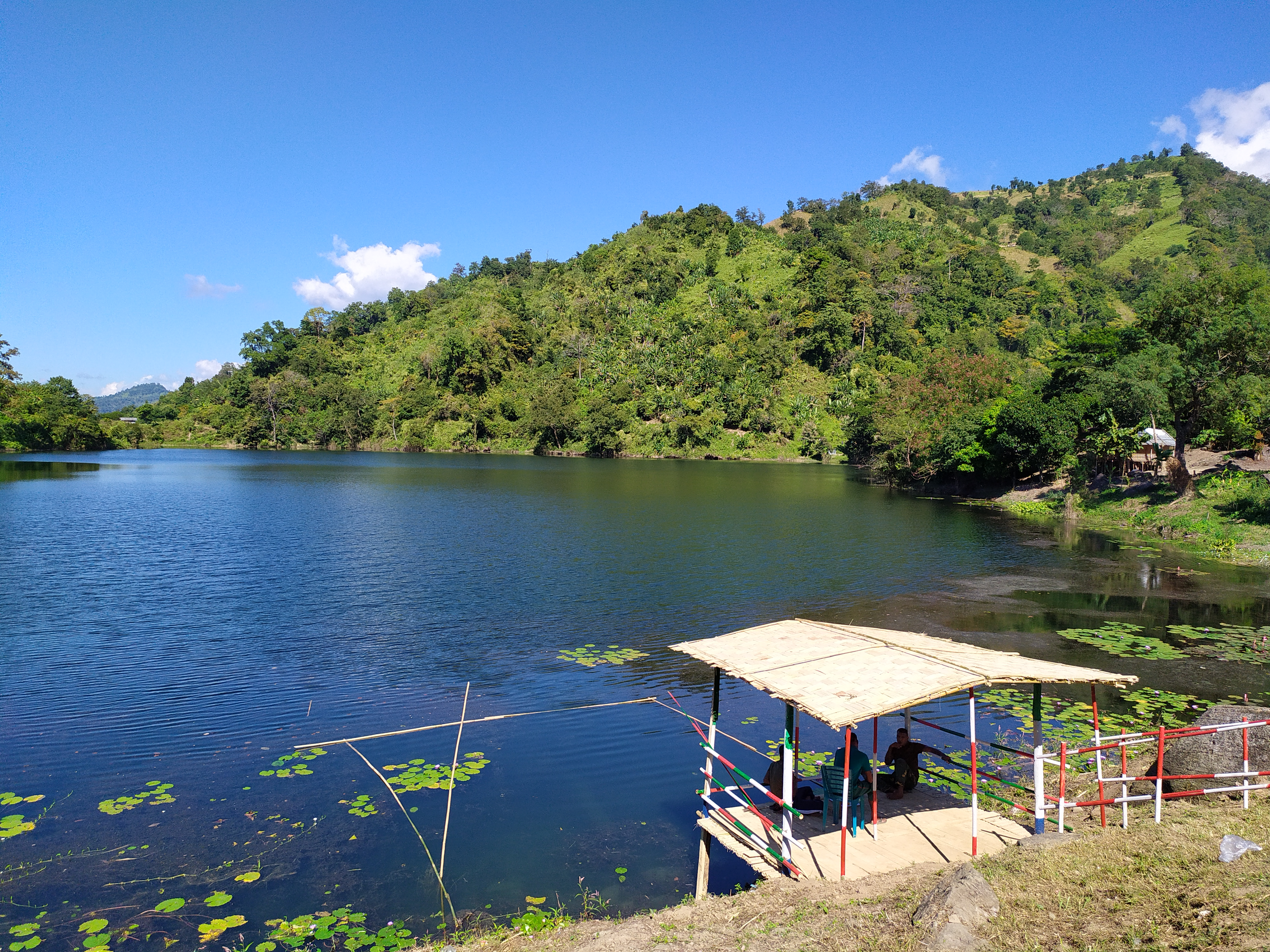 Boga lake, roma, Bandorban